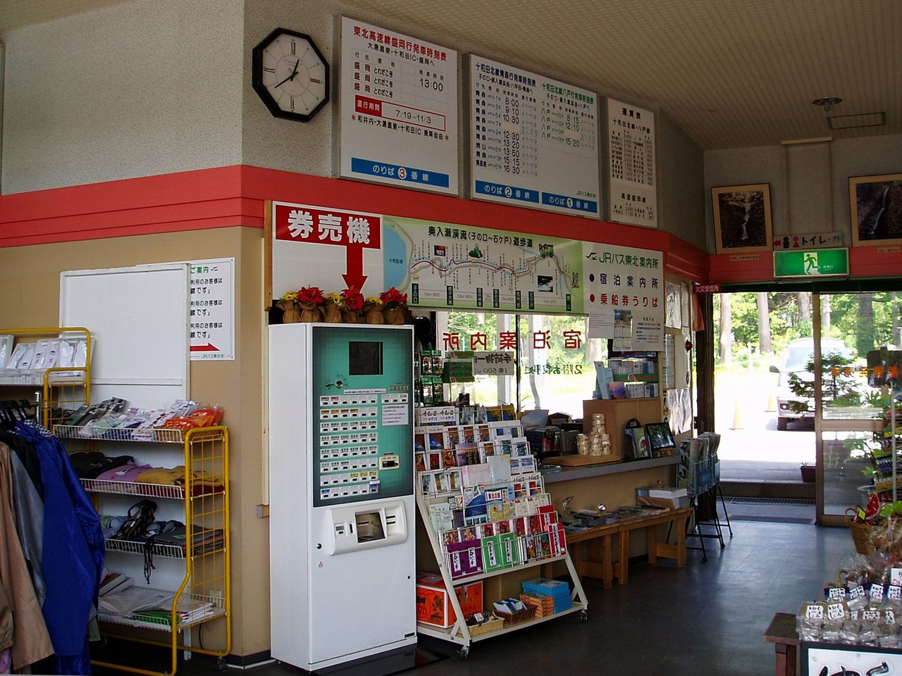 Inside of JR Bus Tohoku Towadako Sta.